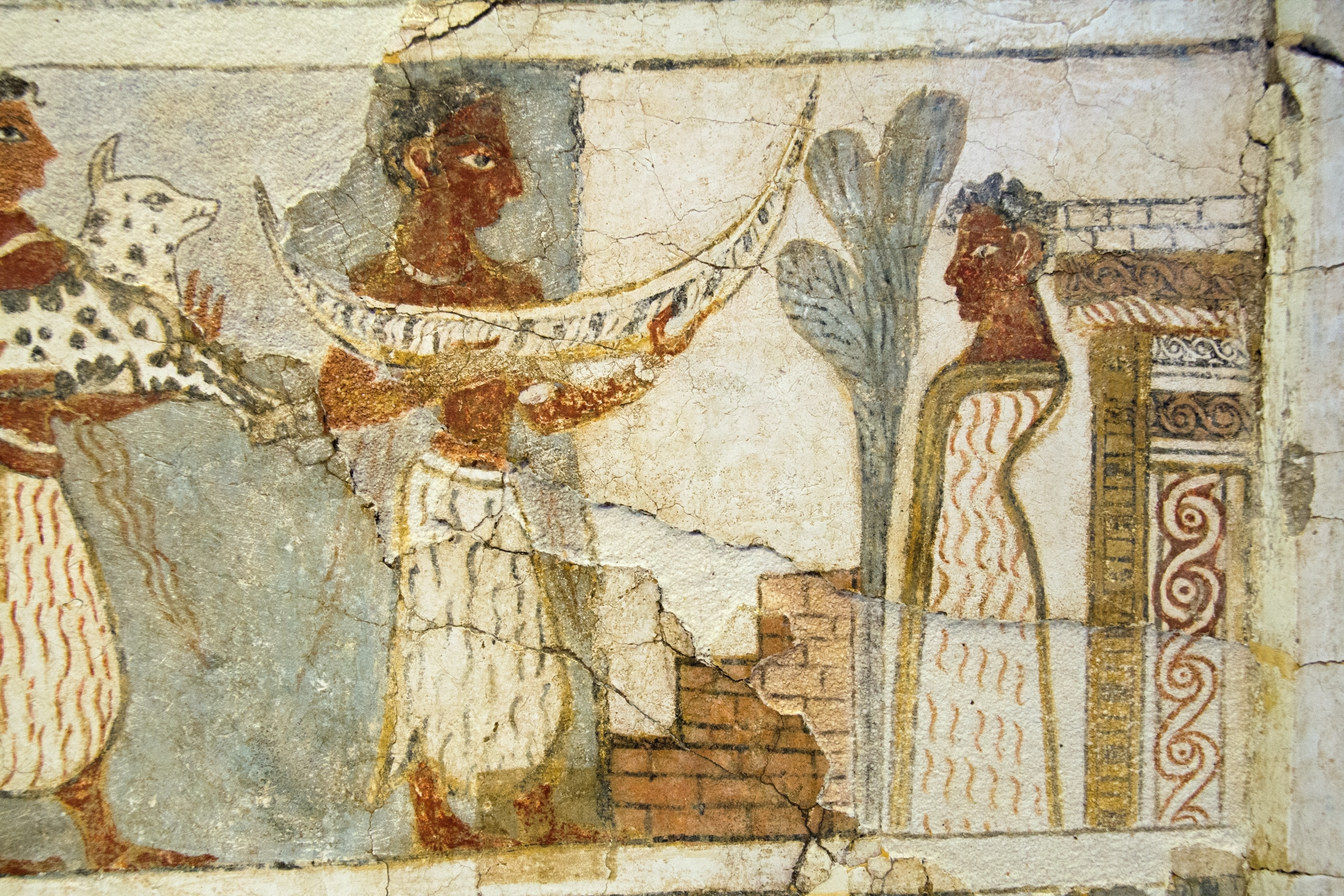 Sarcophagus of Agia Triada, long side 2. The procession of young men with offerings. They carry a ship model and animal for figure who stands by the tree (deceased or a statue of a deity?). 1370-1320 BC. Archaeological Museum of Heraklion.